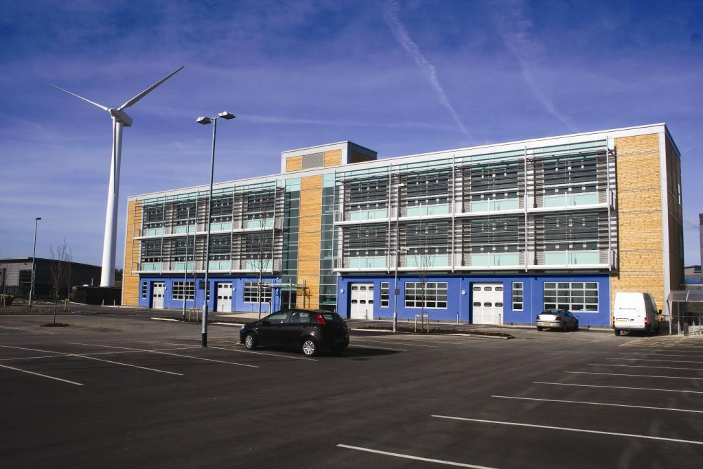 Advanced Manufacturing Park Technology Centre energy wing, including 225kW wind turbine.